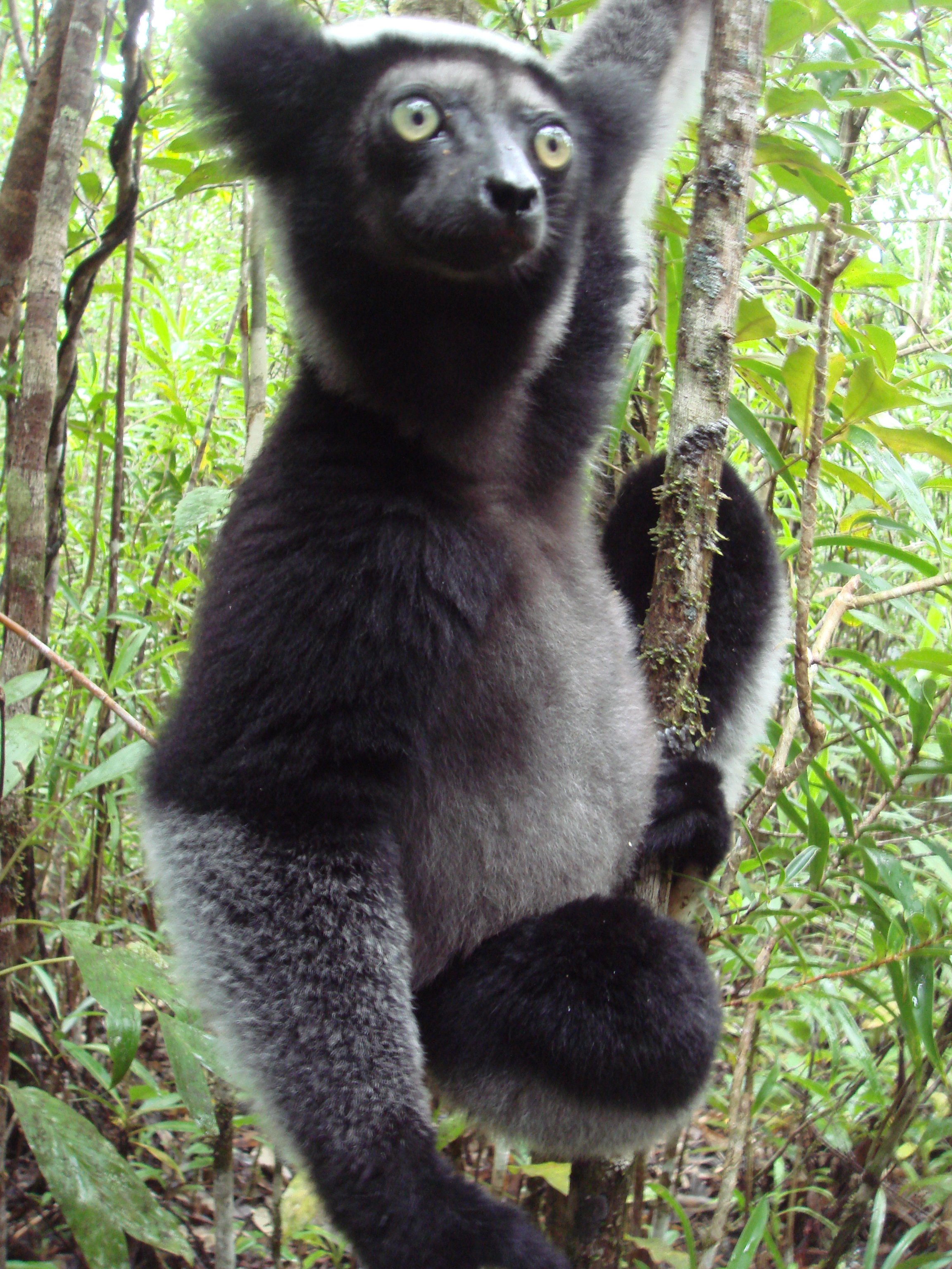 Indri